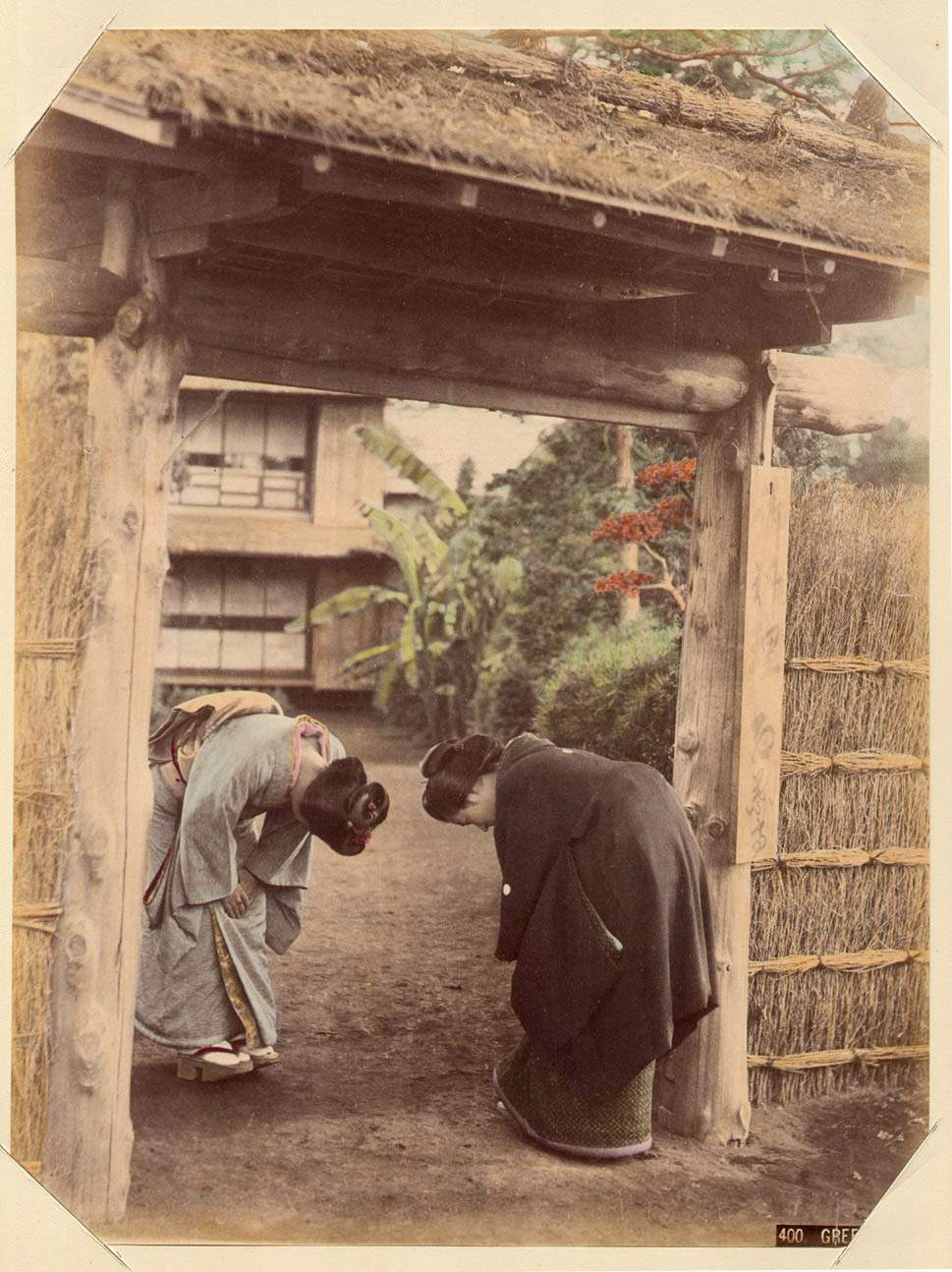 albumen